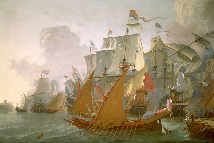 Dutch ships bomb Tripoli in a punitive expedition against the Barbary pirats.